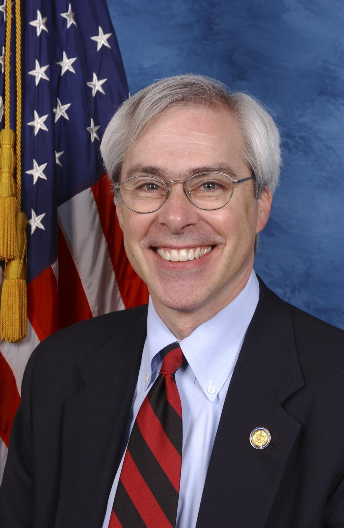 John Barrow, U.S. Congressman.